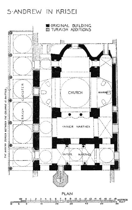 The plan of the Koca Mustafa Pasa mosque in Istanbul, the ancient church of St. Andrew in Krisei